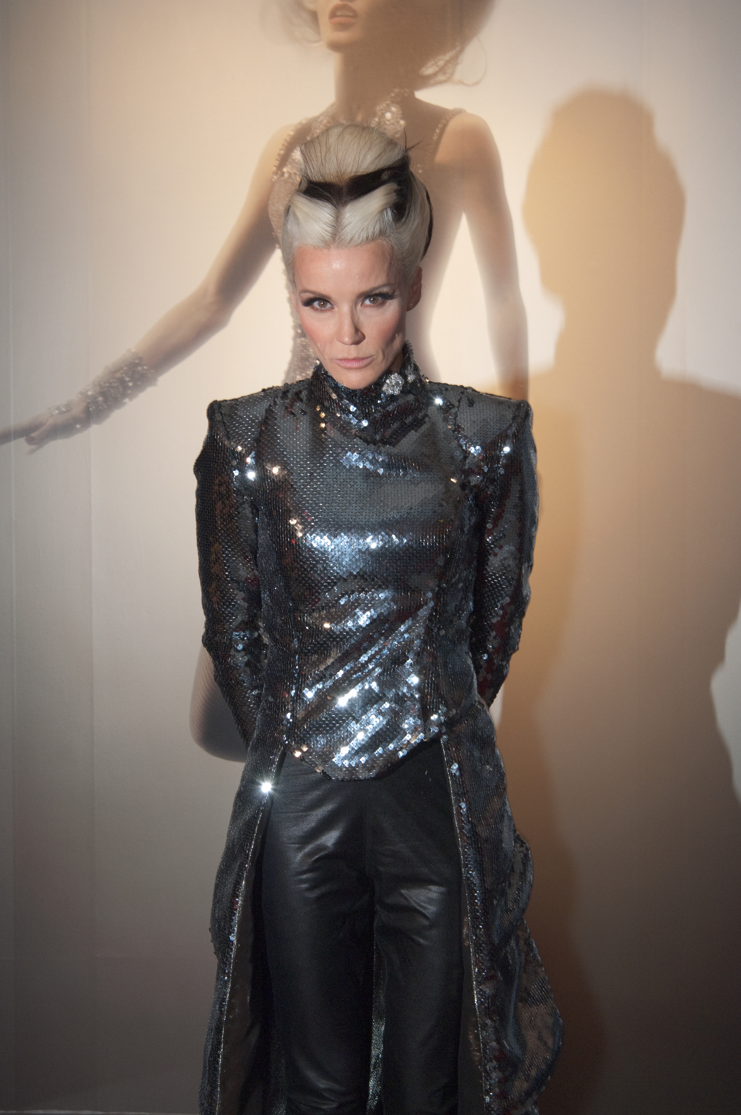 Daphne Guinness at the opening reception of the Museum at FIT’s exhibition Daphne Guinness on September 15, 2011.